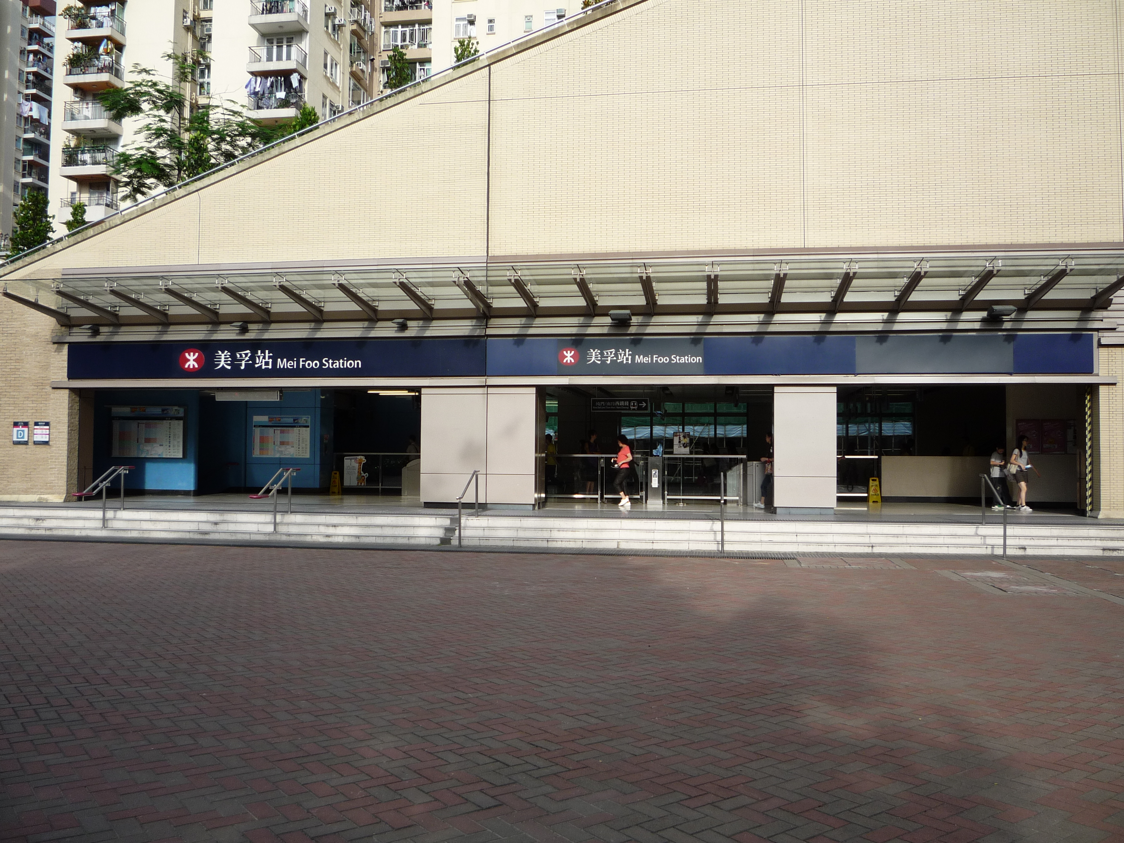 MTR Mei Foo Station Exit D